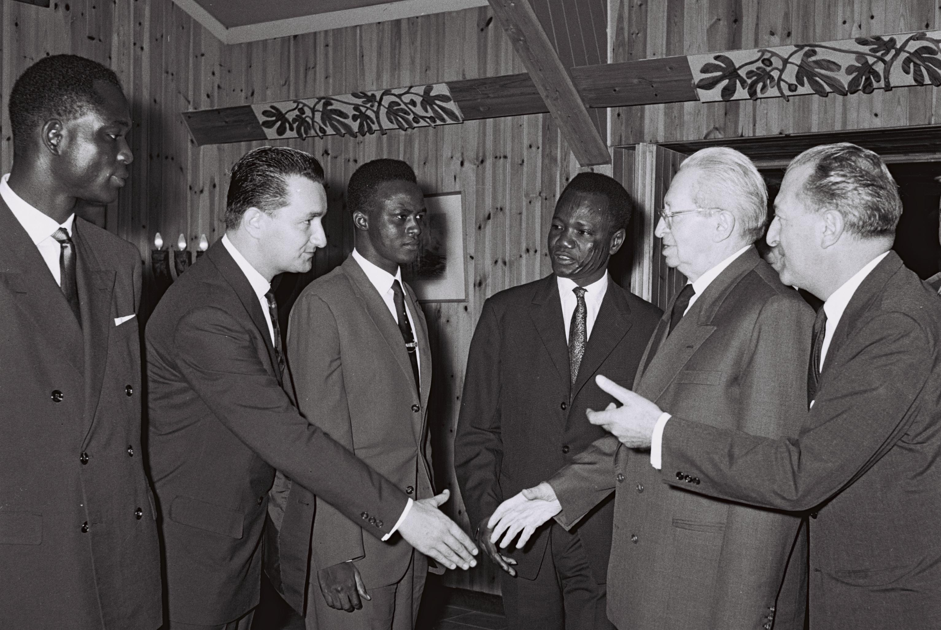 Pres. Yitzhak Ben-Zvi receiving the delegation from Chad, at Beit HaNassi in Jerusalem.